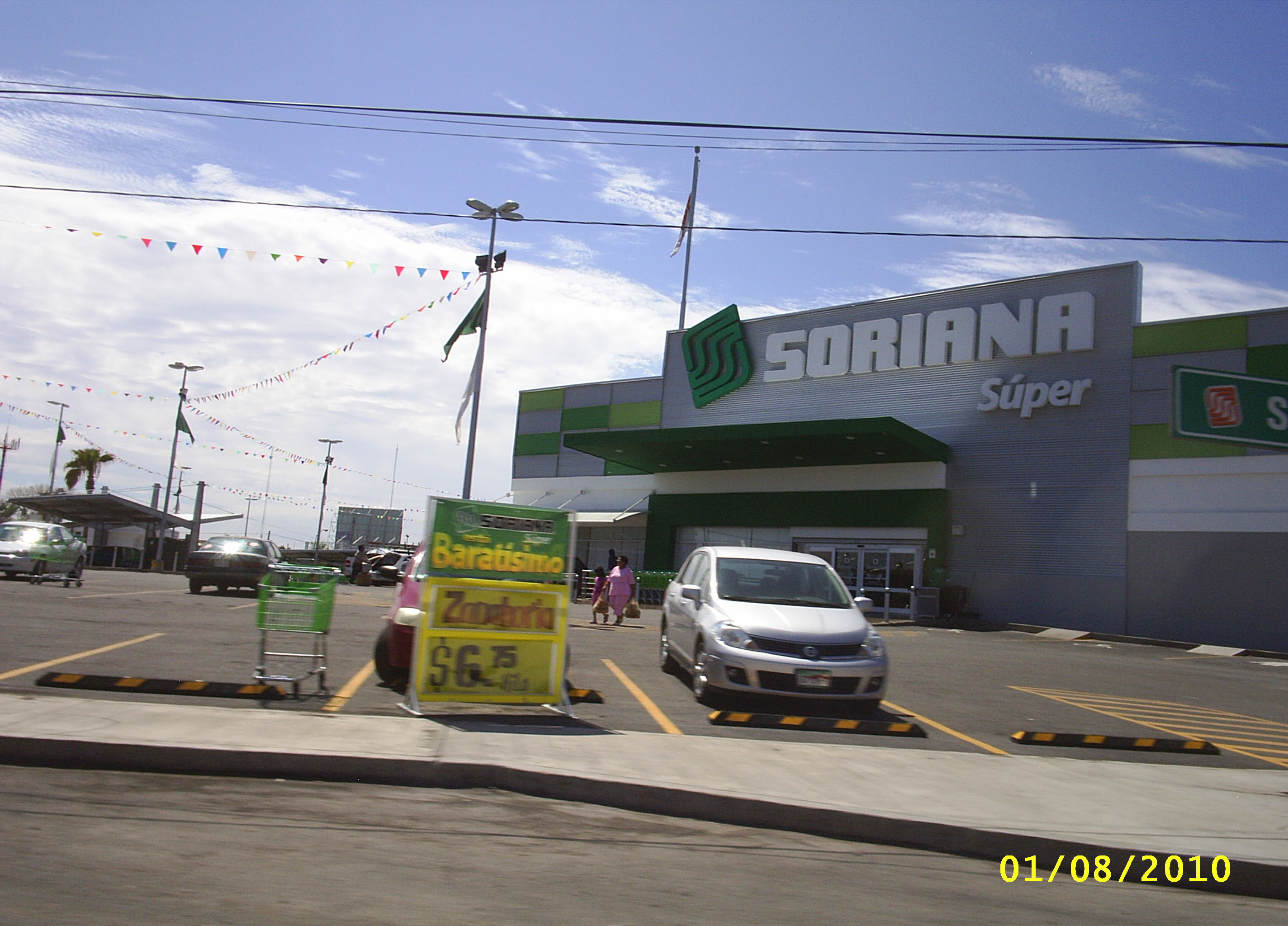 Soriana Super in Torreon, Mexico.